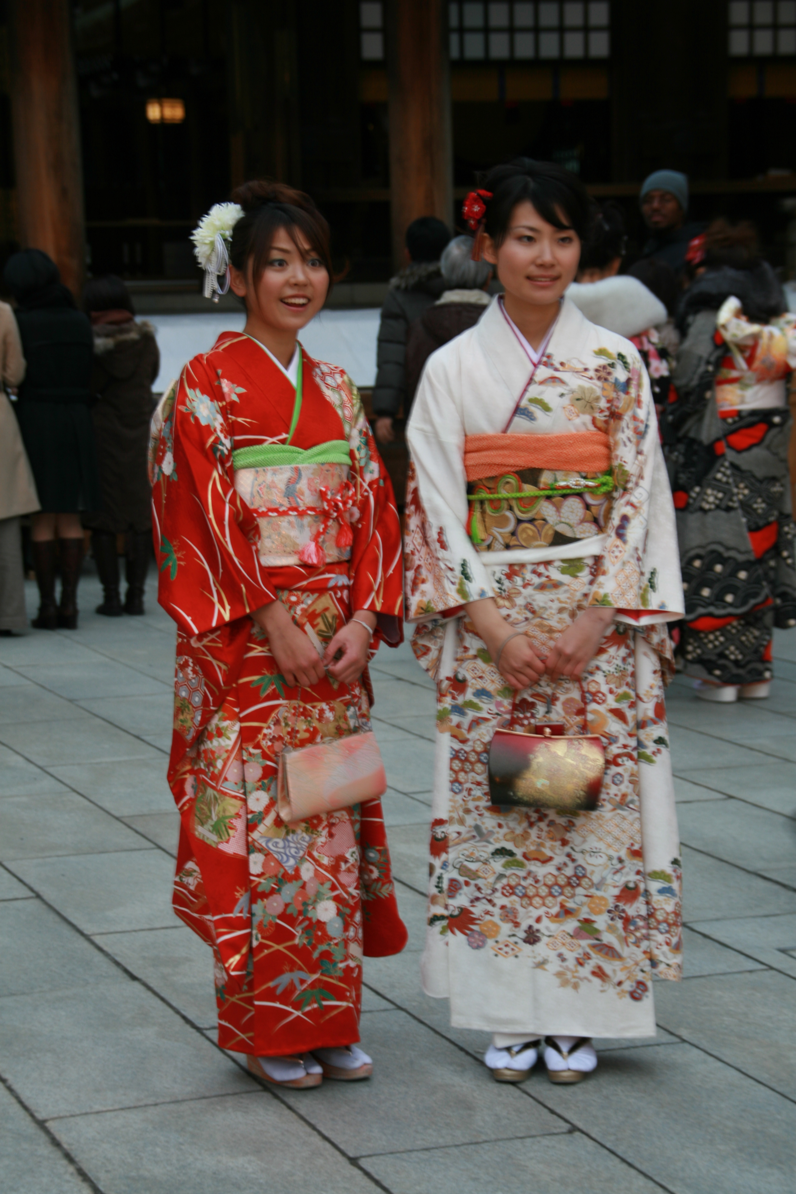 At Meijijingu on "Coming Of Age Day" Jan. 14, 2008 in Japan